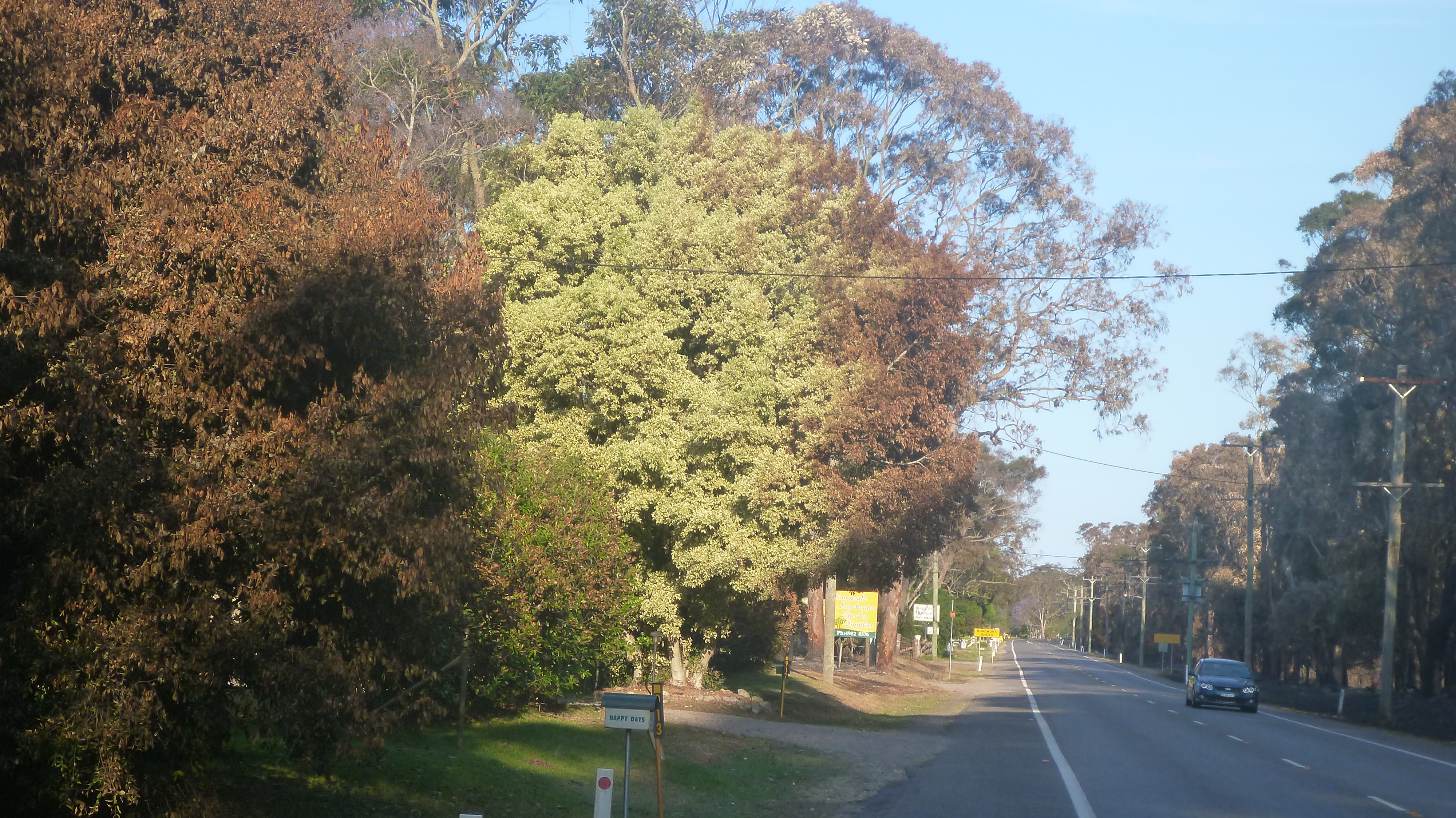 Heat from burning trees on the opposite side of Richardson Road in Campvale New South Wales, Australia during the the 2013 New South Wales bushfires was high enough to sear leaves on trees and foliage on the fence of properties but caused little other damage. Even the grass remained green.